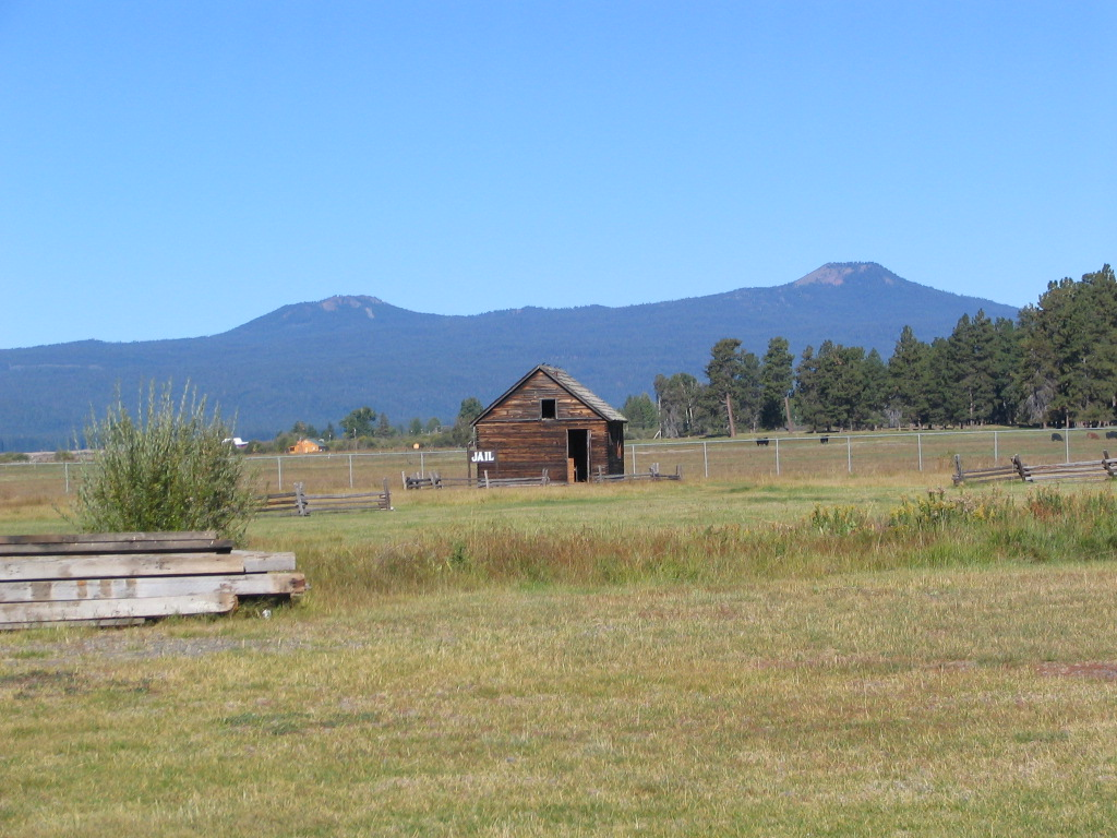 site of Fort Klamath north of Klamath Falls, Oregon